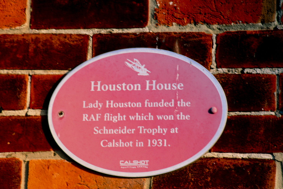 A Pink Plaque attached to the wall of the officers mess at the former flying boat and seaplane base of RAF Calshot, Hampshire, UK. The plaque on the building now known as Houston House records that in 1931 Lady Houston funded a 1931 British entry in the Schneider Trophy that was won by the Supermarine S6B designed by R.J.Mitchell who later designed the Spitfire. The building served as an officer's mess and the station headquarters until 1961 when RAF Calshot was closed and ownership of the site passed to Hampshire County Council. Image uploaded by me User:George.Hutchinson from a photograph taken by and supplied by Brian Burnell. The photograph should be attributed to Brian Burnell in this format. Wikipedia editors are reminded that the copyright remains with the photographer, and that the terms of the Creative Commons Attribution-ShareAlike 3.0 Unported Licence that allow editors to reuse this image apply to Wikipedia editors also, as they do to other reusers of this image. Breaches of the licence terms are not only unlawful, but are also antisocial, in that breaches discourage photographers from making their images freely available to everyone without payment. Non-Wikipedia users are requested to advise Brian Burnell of its use other than on Wikipedia.